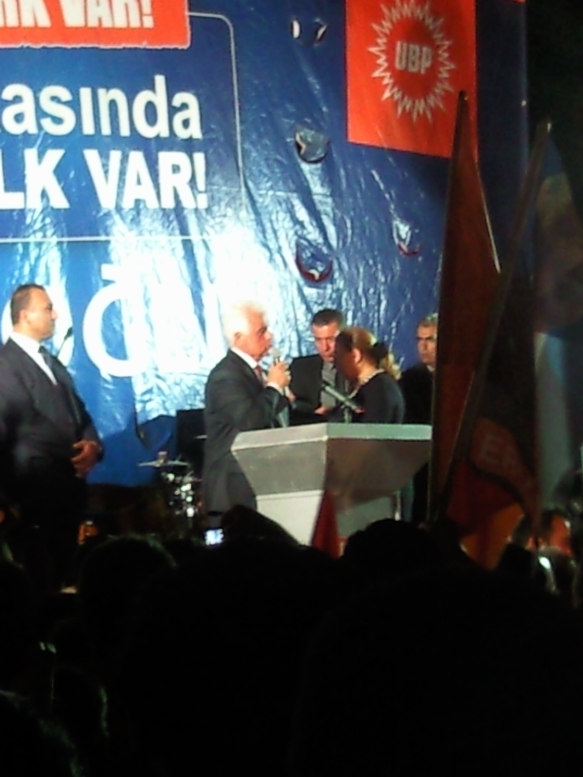 Derviş Eroğlu, talking to the people just after winning the presidental elections in Northern Cyprus in 2010.